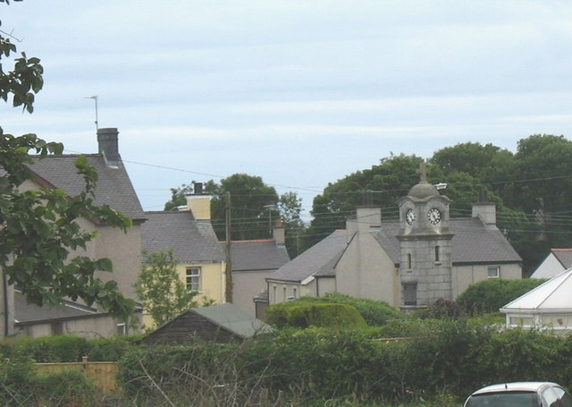 The centre of Lower Gwalchmai village, near to Gwalchmai, Isle of Anglesey/Sir Ynys Mon, Great Britain. The war memorial clock forms an instantly recognised feature.